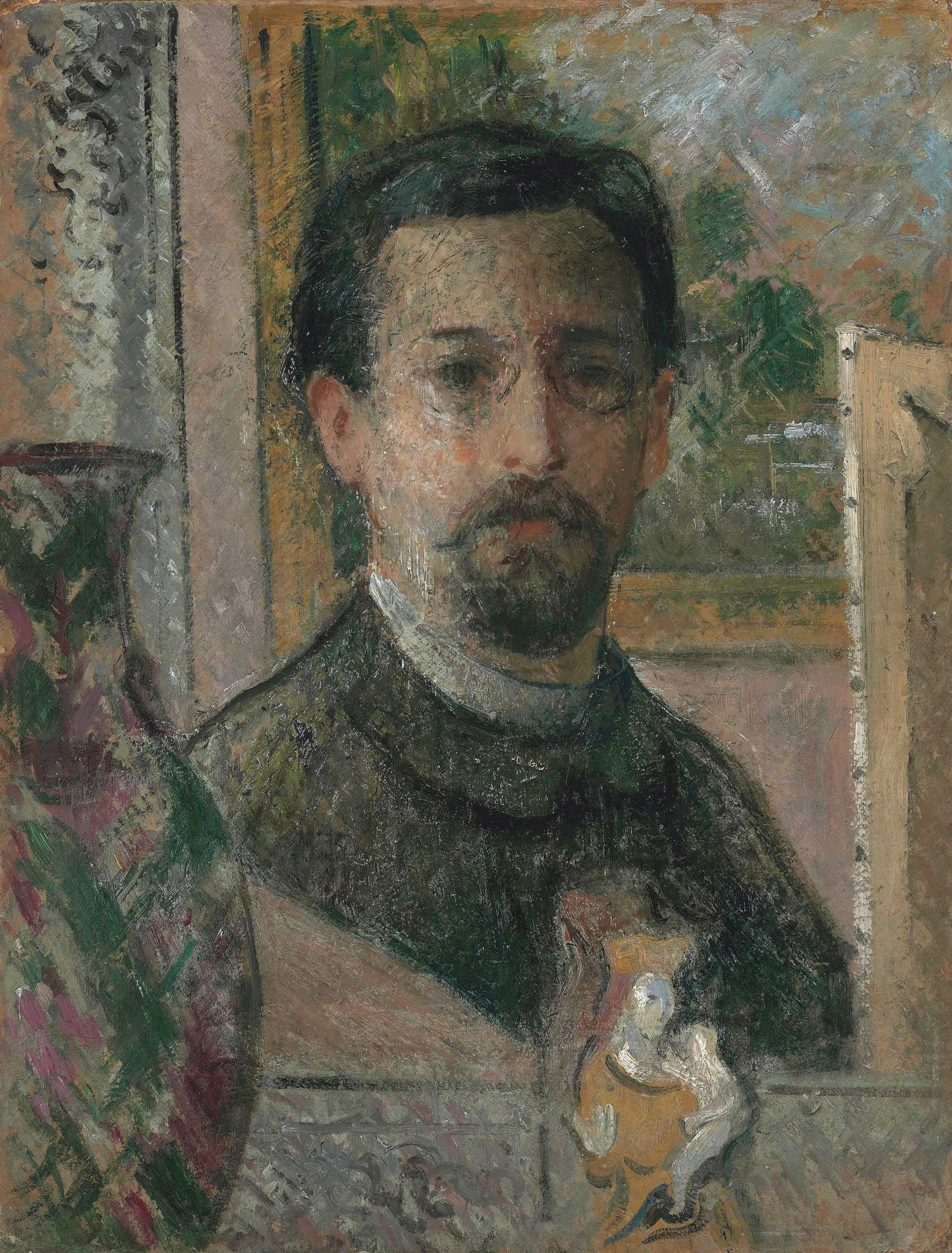 Self-Portrait-with-Statuette